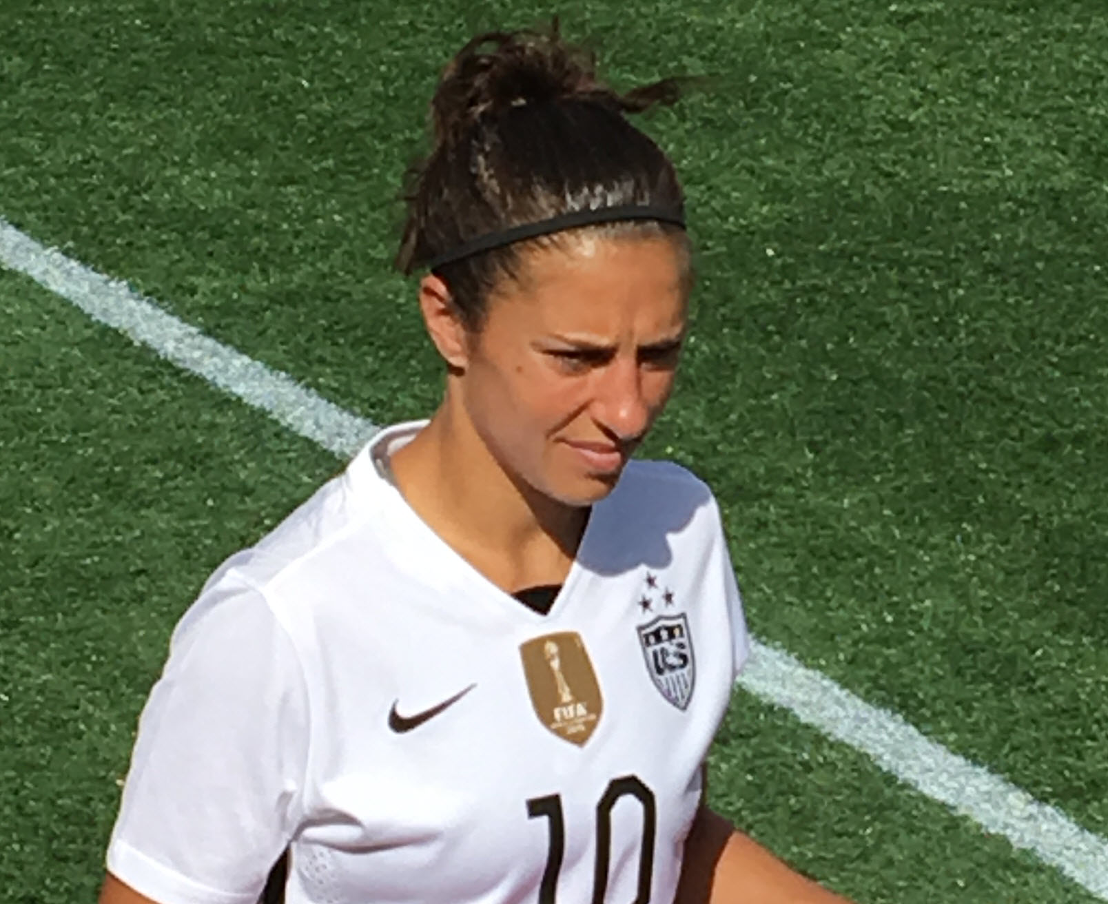 2015 FIFA Women's Player of the Year